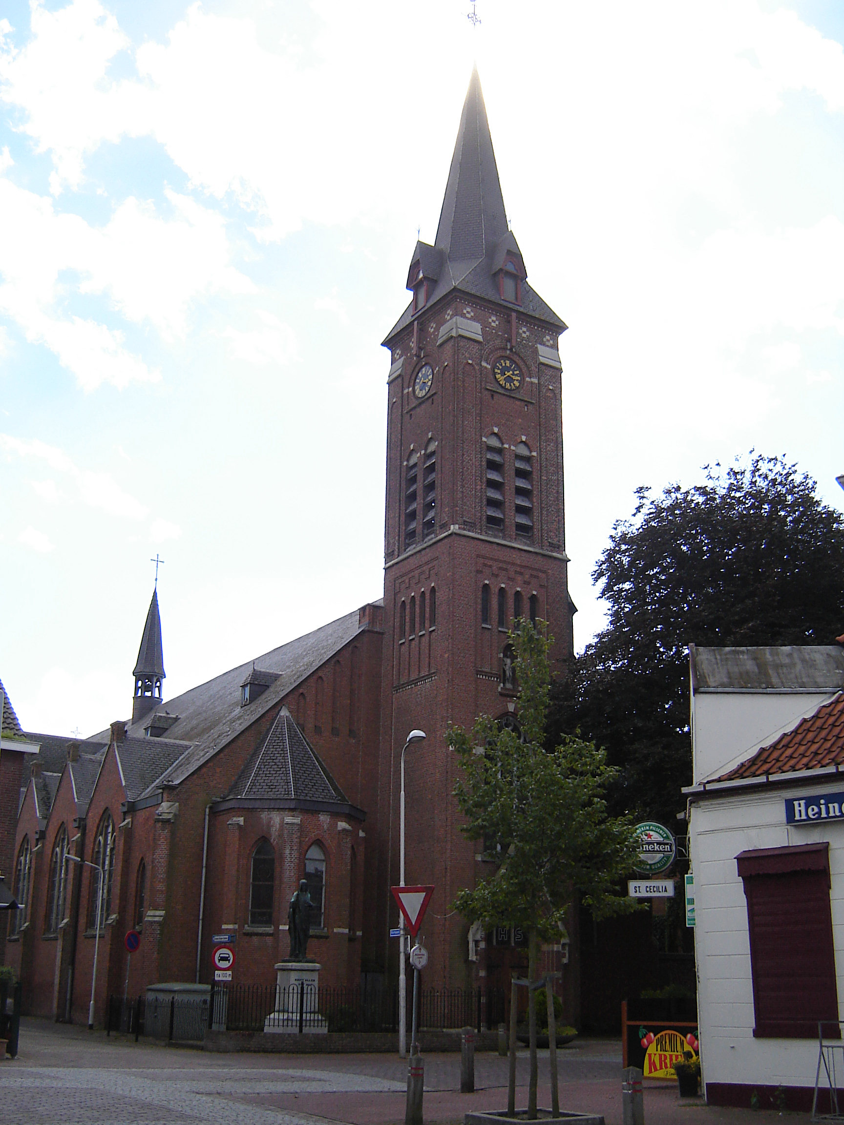 Church of Saint Joseph in Nieuw-Namen. Nieuw-Namen, Hulst, Zeeland, the Netherlands